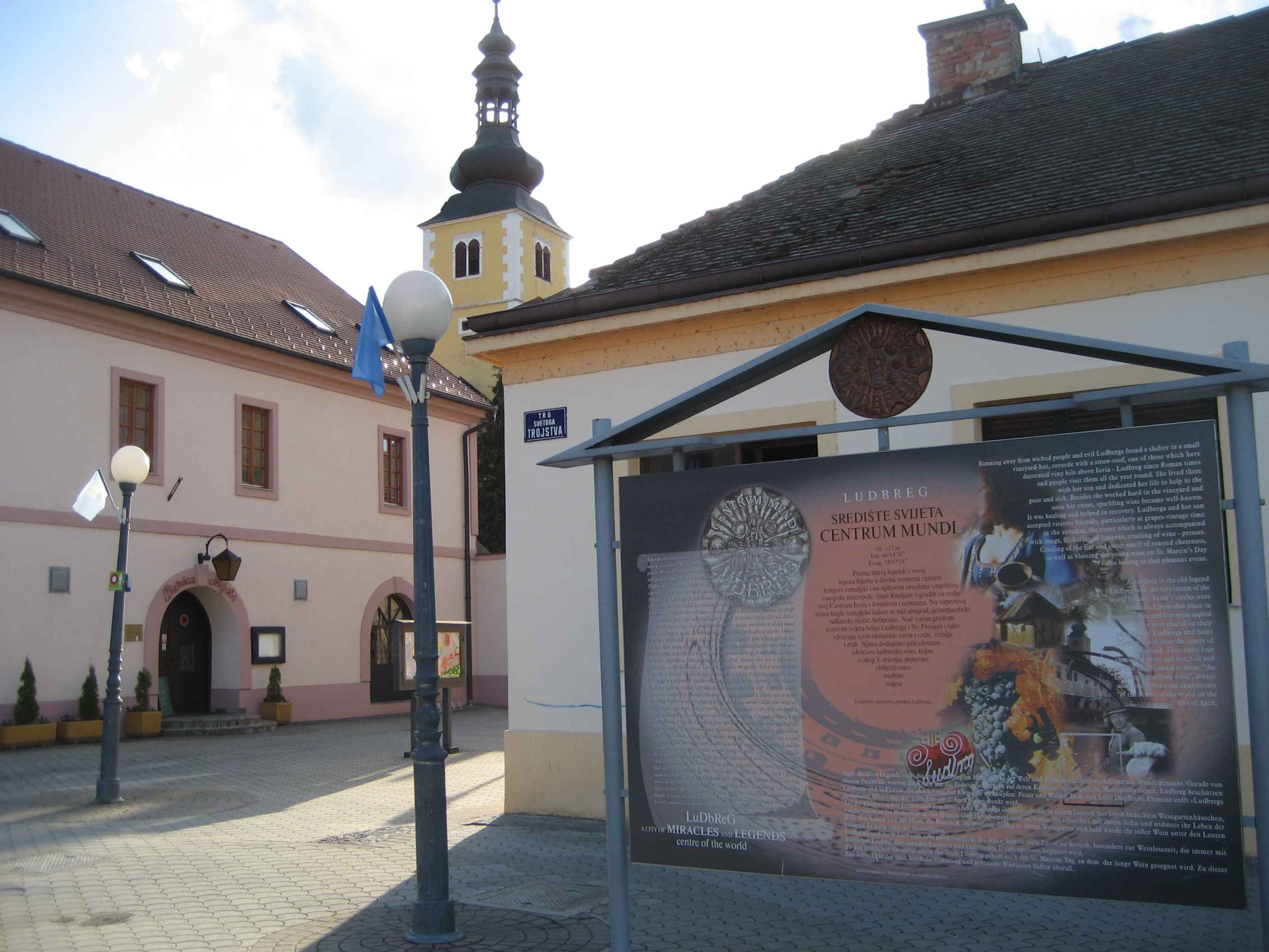 Ludbreg, Croatia